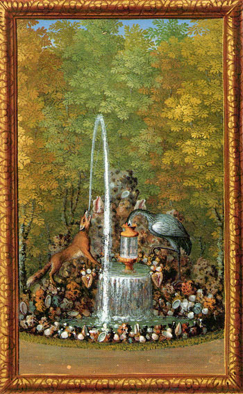 A Fountain : 'The fox and the Crane' from Jacques Bailly's Le Labyrinthe de Versailles illustrating the Aesop's fable The Fox and the Stork.